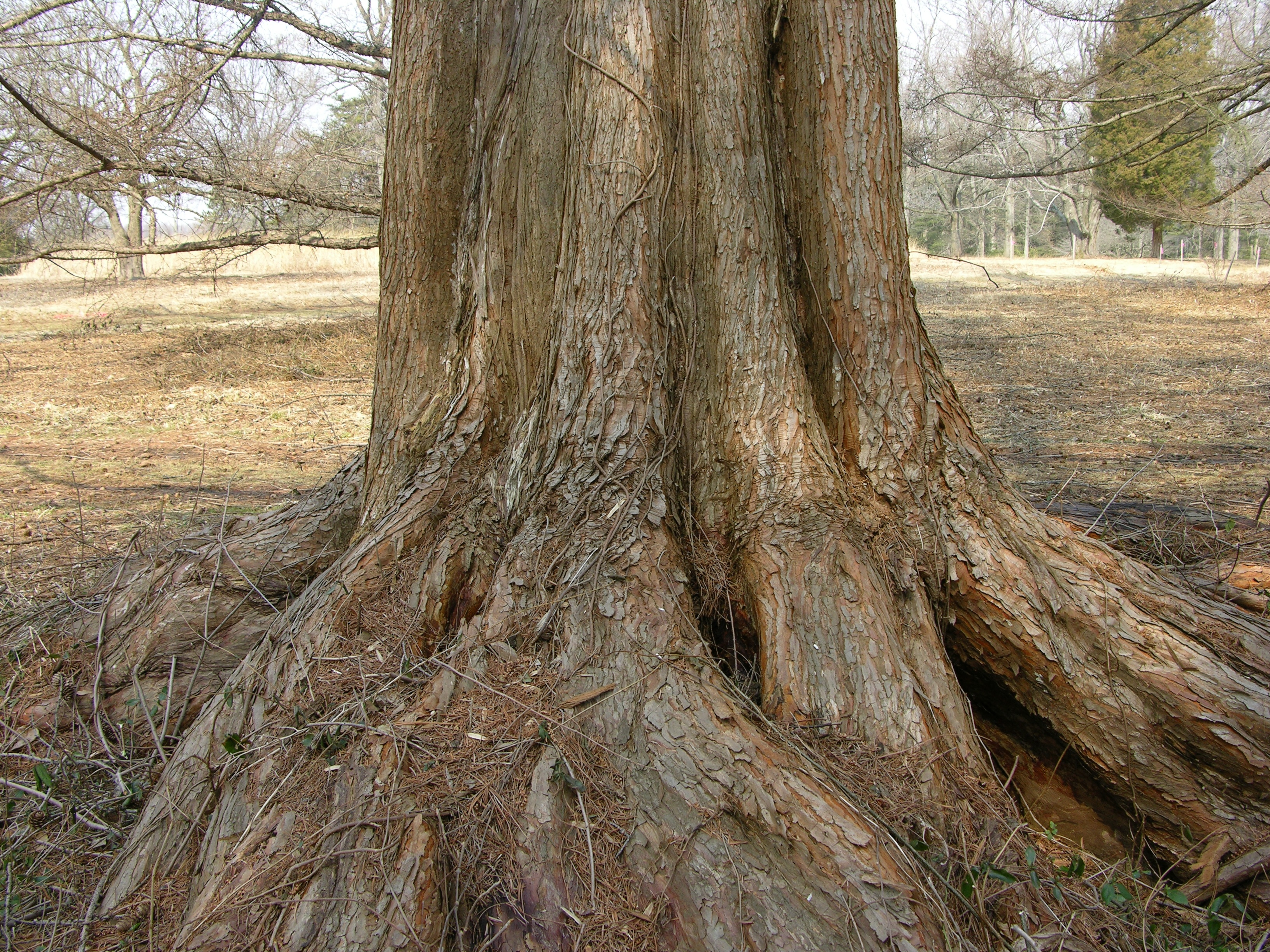 Photograph of the base of a Dawn_Redwooden (Metasequoia glyptostroboides en ) tree. Photo taken at the Tyler Arboretum where it was identified.